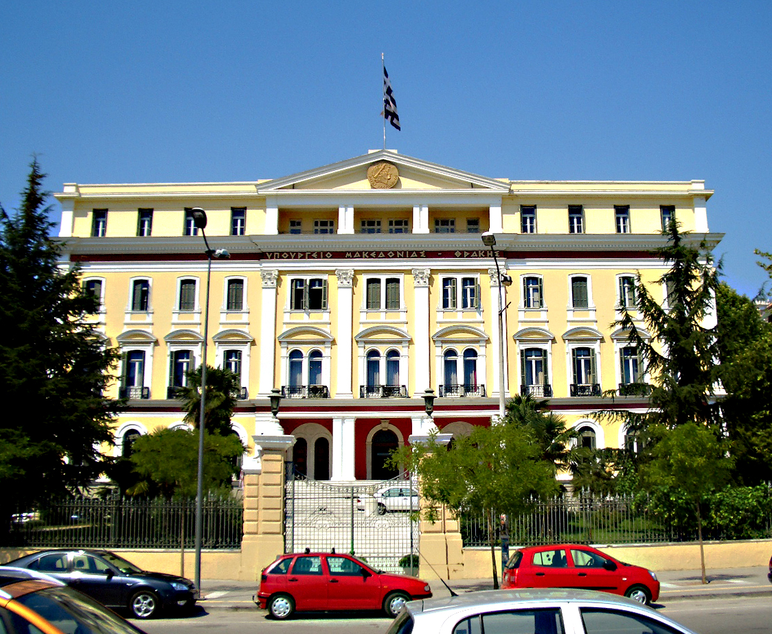 Dioikitirio. The Residence of the former Ministry for Macedonia and Thrace. Architectural project of the Italian architect Vitaliano Poselli. Agiou Dimitriou Street. Thessaloniki